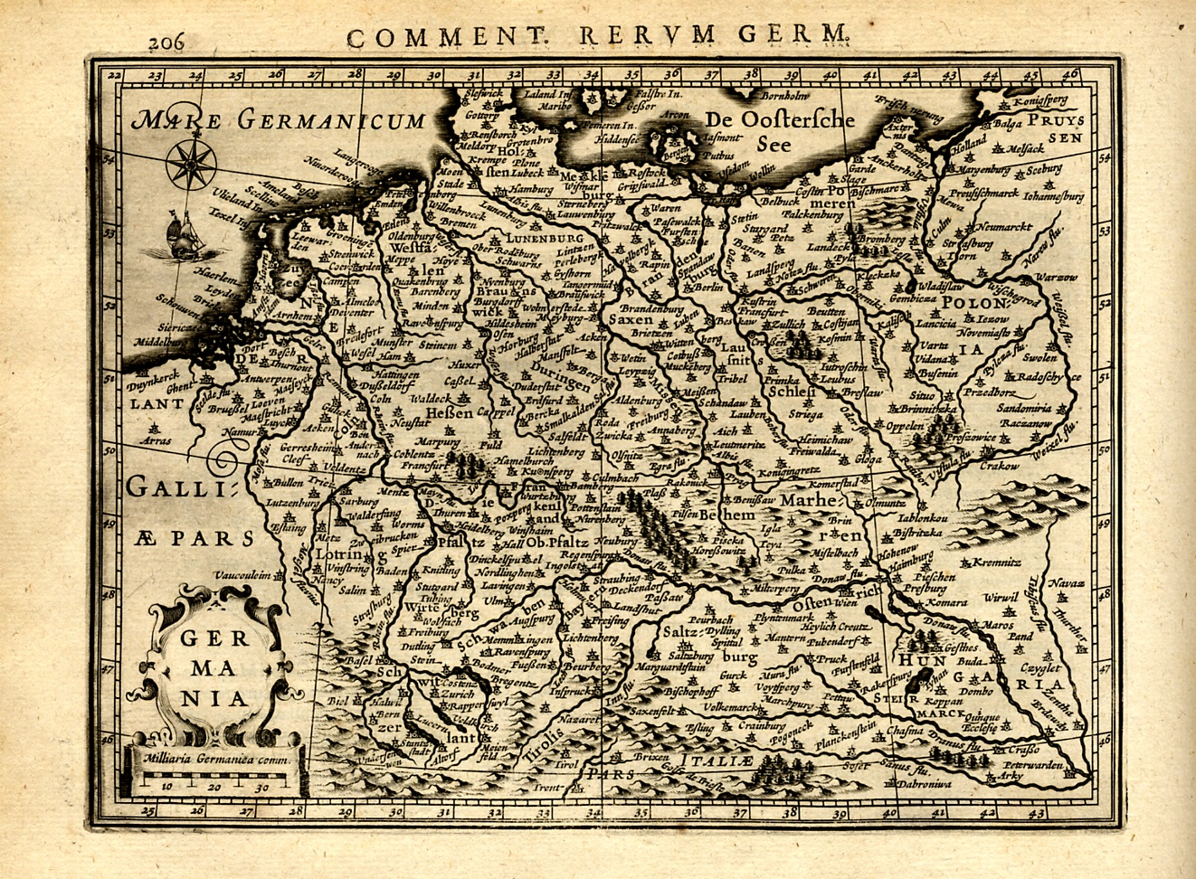 Germania from Commentariorum Rerum Germanicarum by Petrus Bertius (1616)